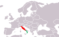 == Distribution of Salamandrina: - in Red the distribution of Salamandrina perspicillata; - In Green distribution of Salamandrina terdigitata